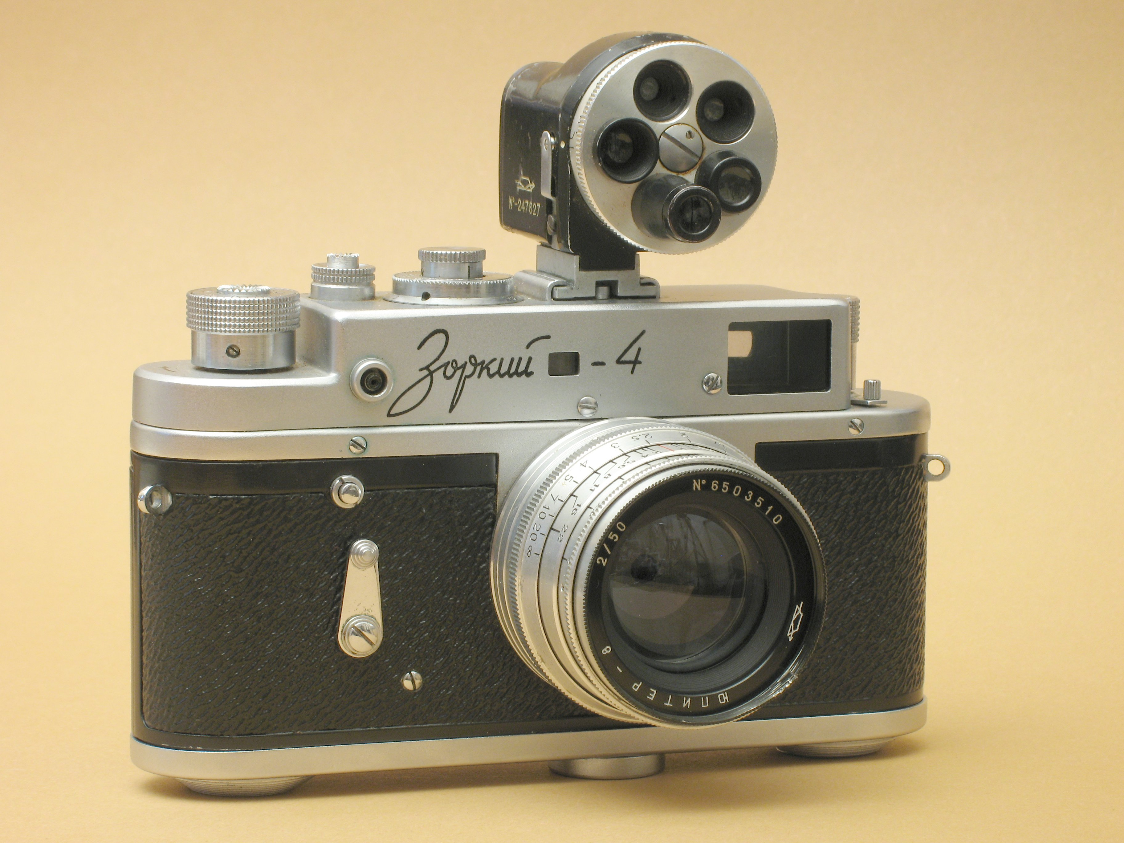 Zorki-4 camera made in USSR, lense "Jupiter-8" 50mm/2